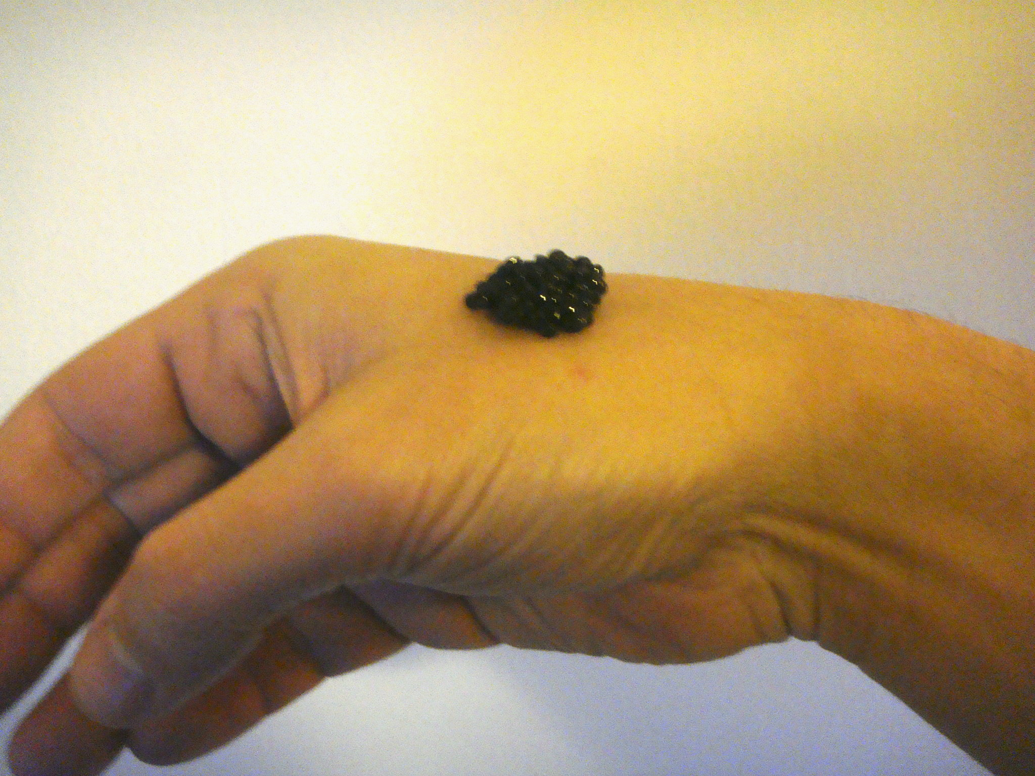 Caviar ready for tasting (Prunier Caviar - non wild Siberian Sturgeon)